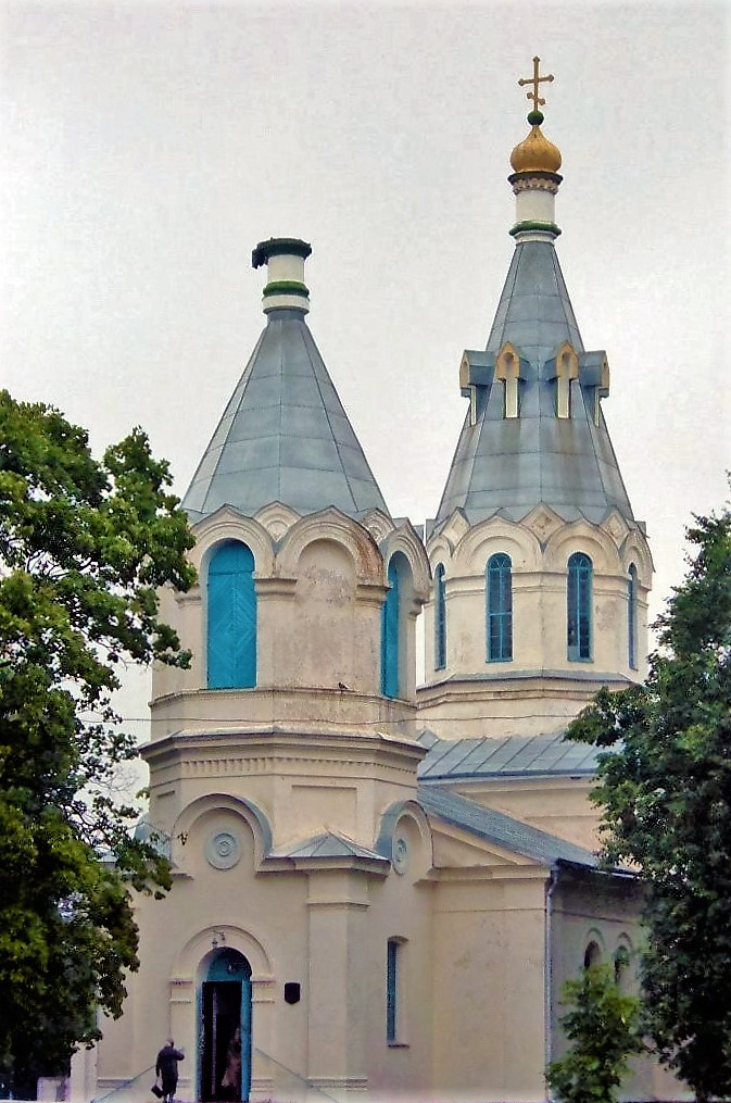 Eastern Orthodox Church in Maladzechna, Belarus